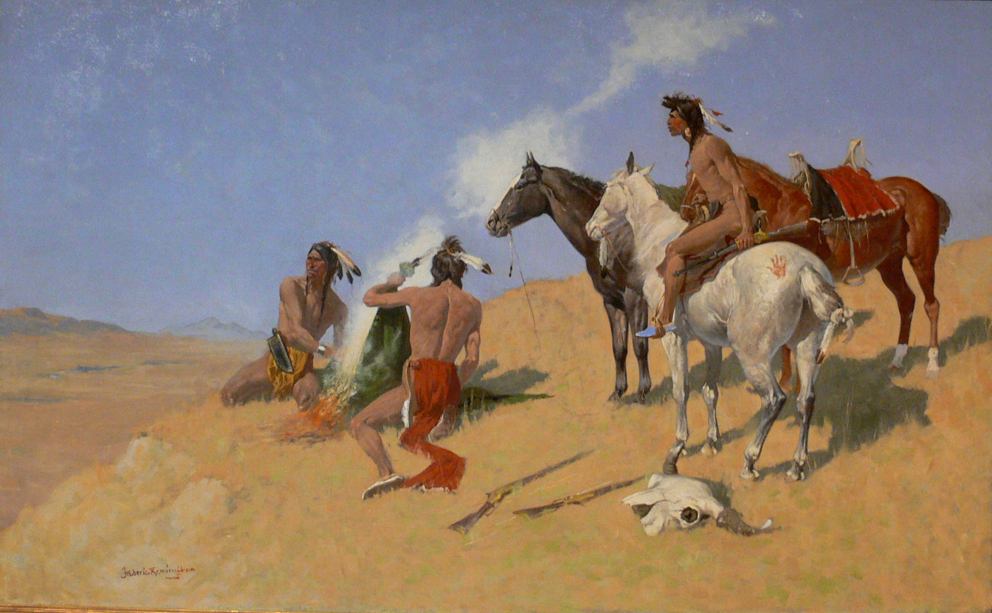 The Smoke Signal